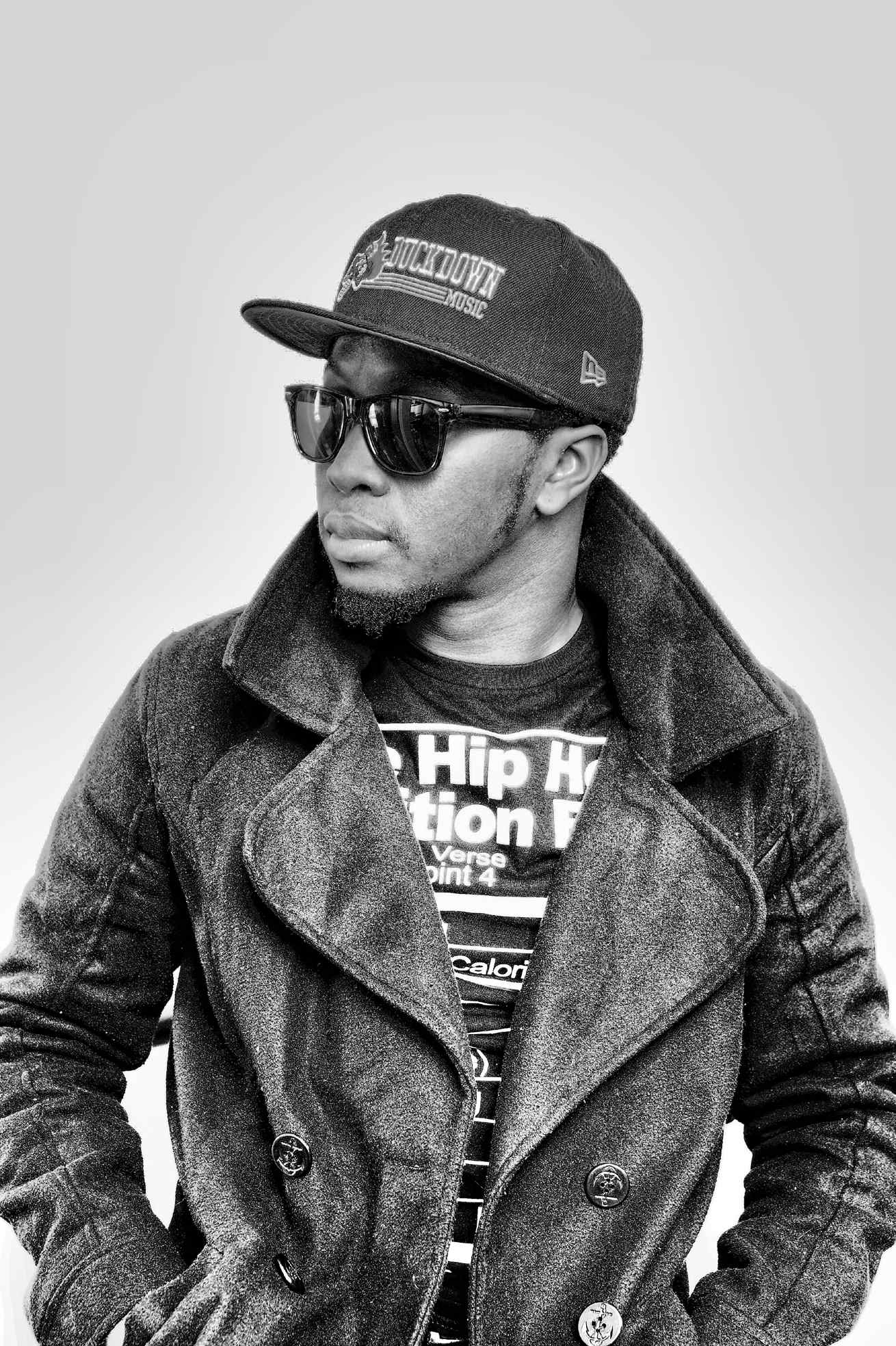 Promise Jason Jamal Shepherd professionally known as Promise is a Canadian Hip hop soul artist/songwriter